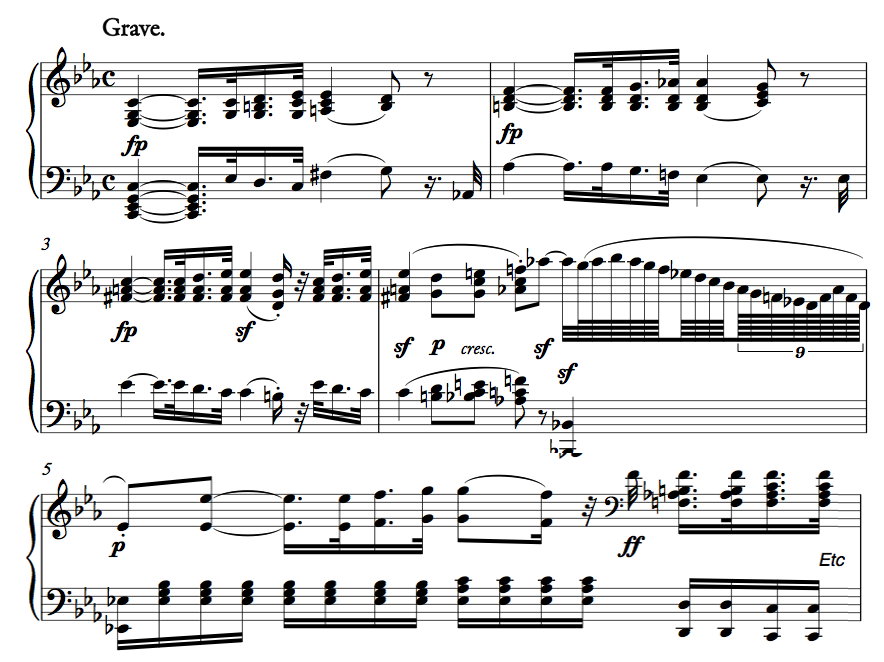 First movement #1 of the 8th sonata op 13 by Beethoven